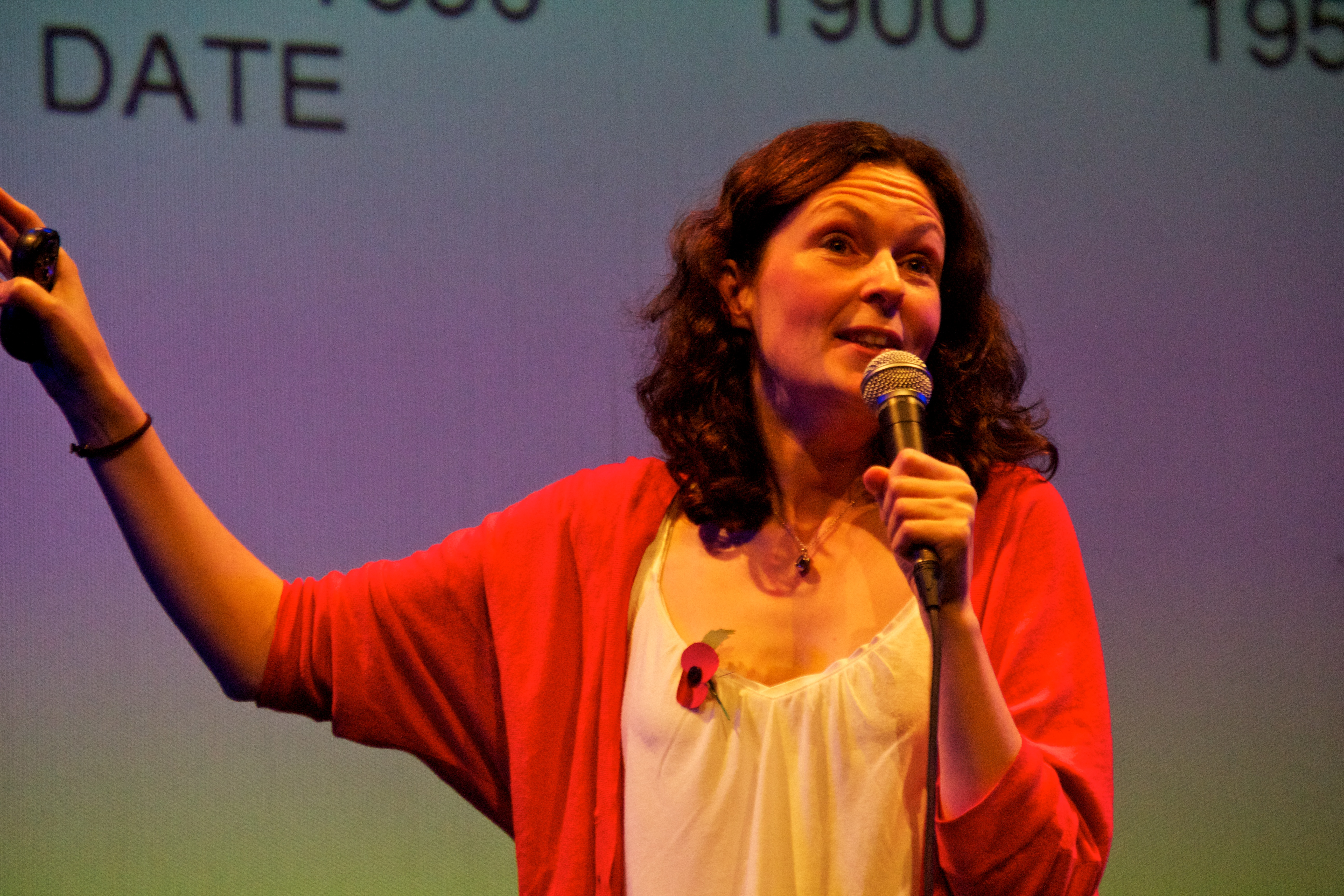 Lucie Green presenting at Bright Club London.